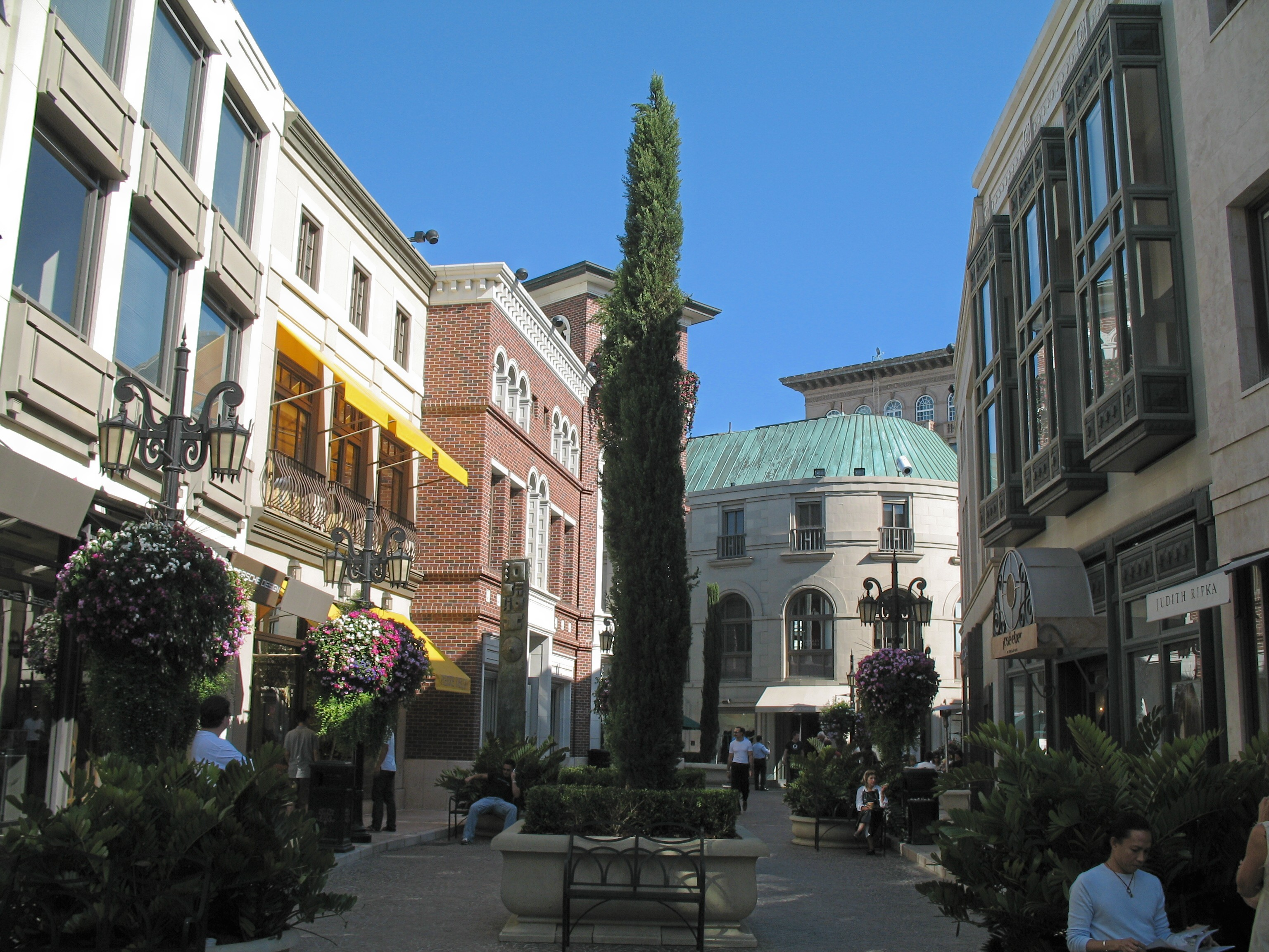 Photo of an interesting topiary on Two Rodeo in Beverly Hills, CA. This photo was taken at about the halfway point up the street.